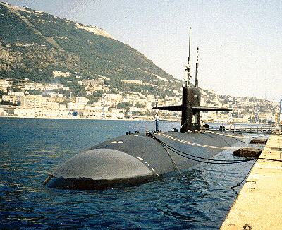 USS Groton (SSN-694) in port at Gibraltar